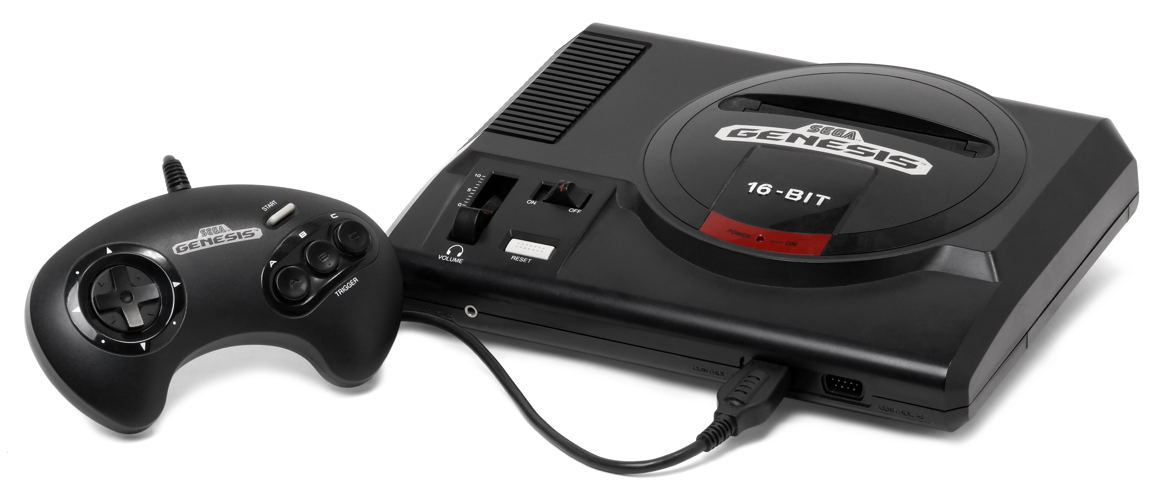 A Sega Genesis, this is a model 1 version with a three button controller. This is the PNG version.